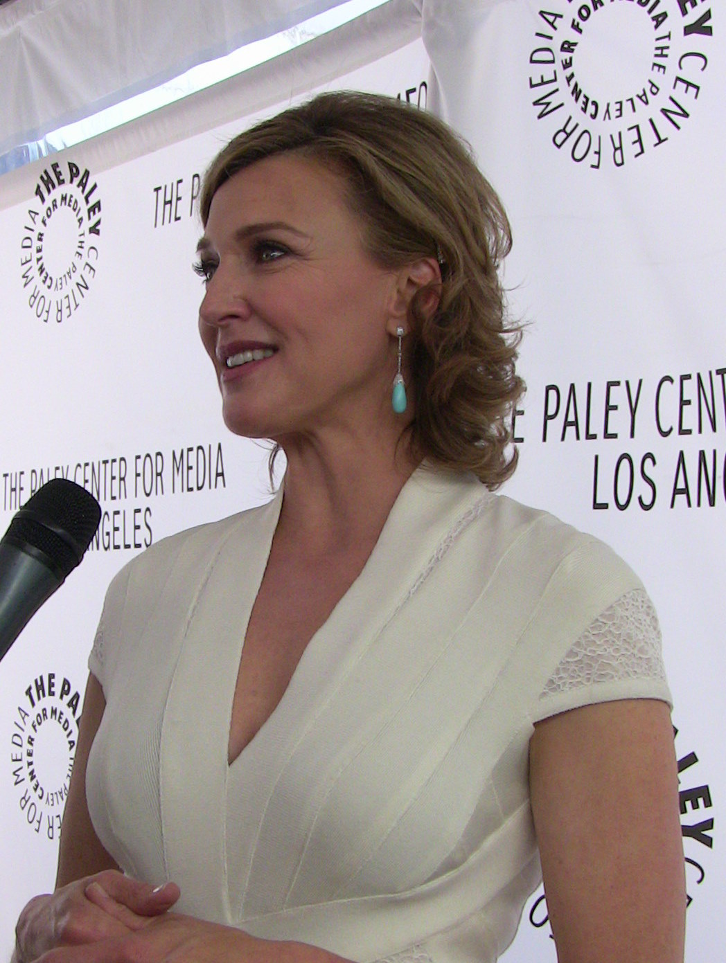 Actress Brenda Strong at Desperate Housewives Paley Fest, William S. Paley Center, Beverly Hills, California